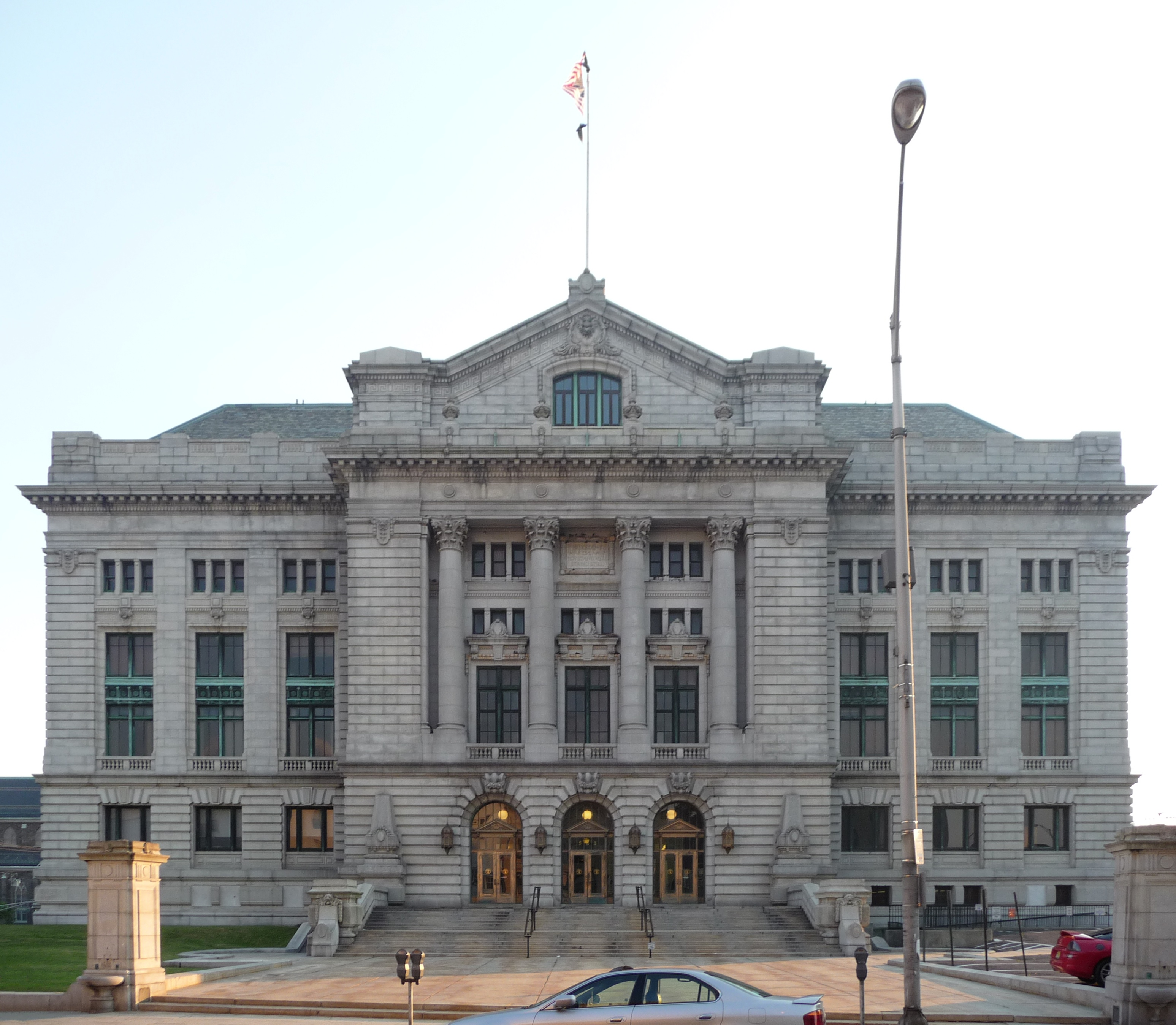 Front elevation of the Justice William J. Brennan Jr. Courthouse in Jersey City, New Jersey, USA